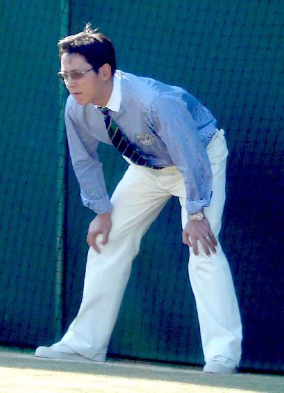 A line umpire stands at the ready position, wearing the uniform of The Championships, Wimbledon.